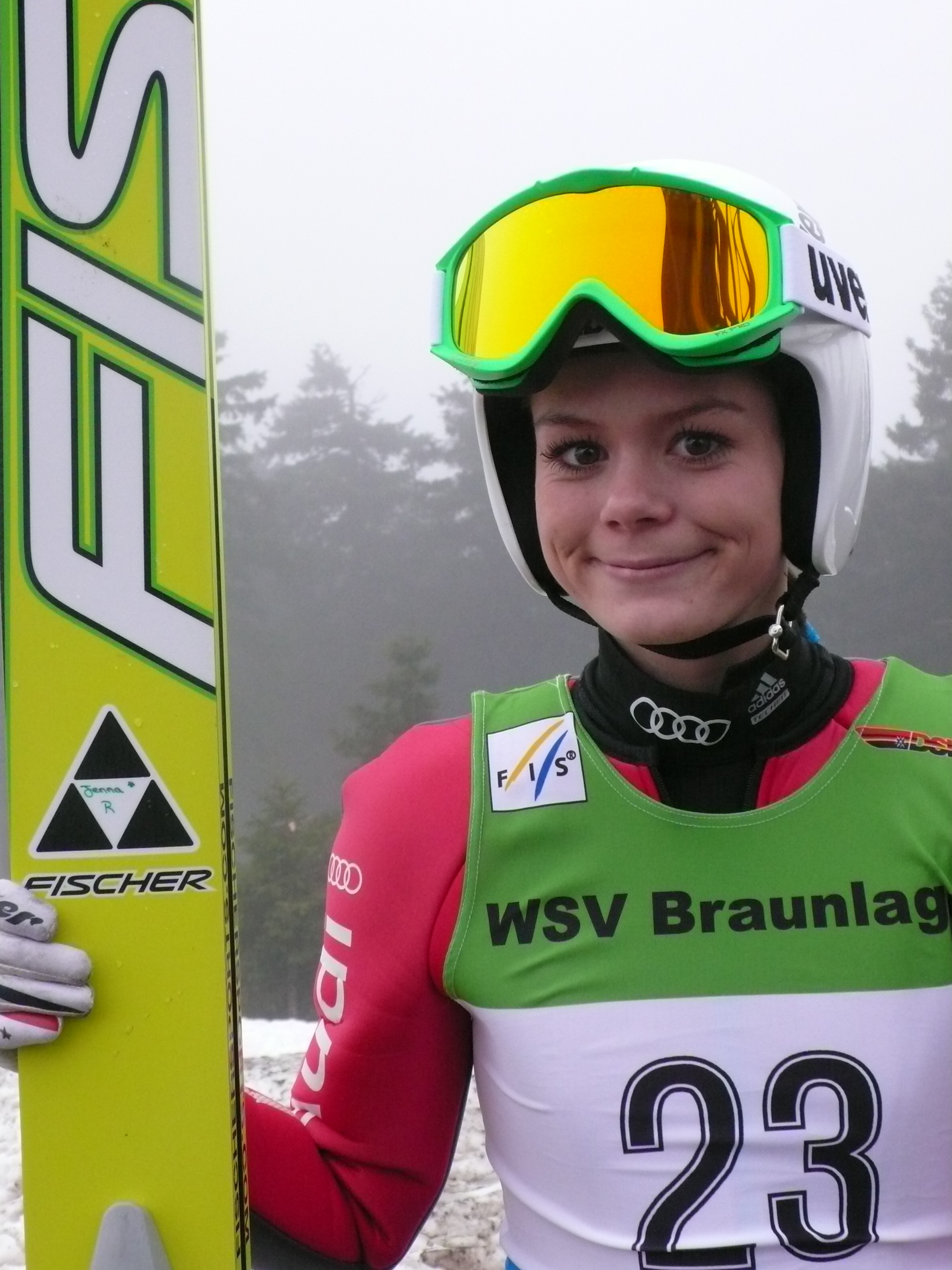 Jenna Mohr, Braunlage